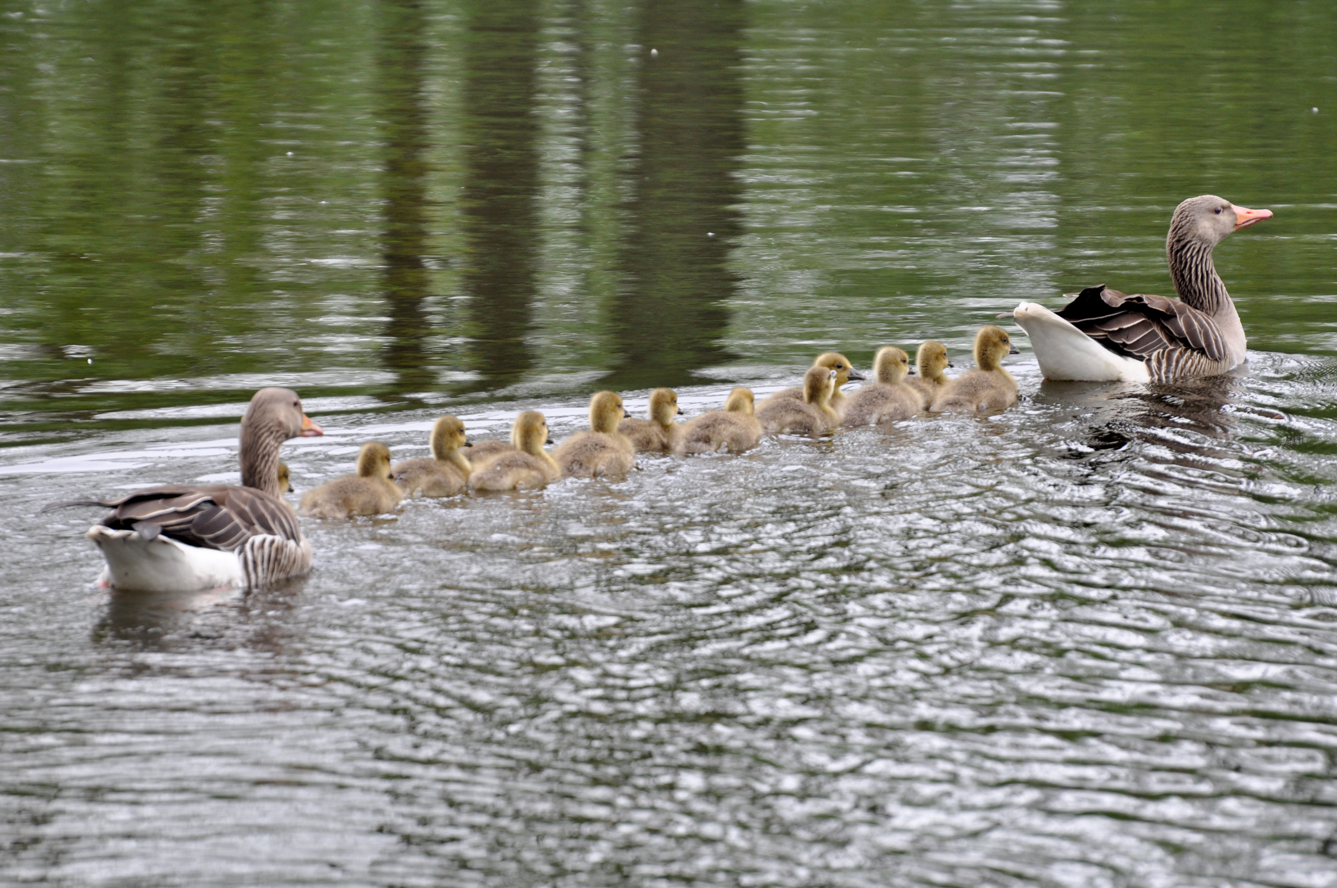 Greylag familiy in Kirchwerder, Hamburg